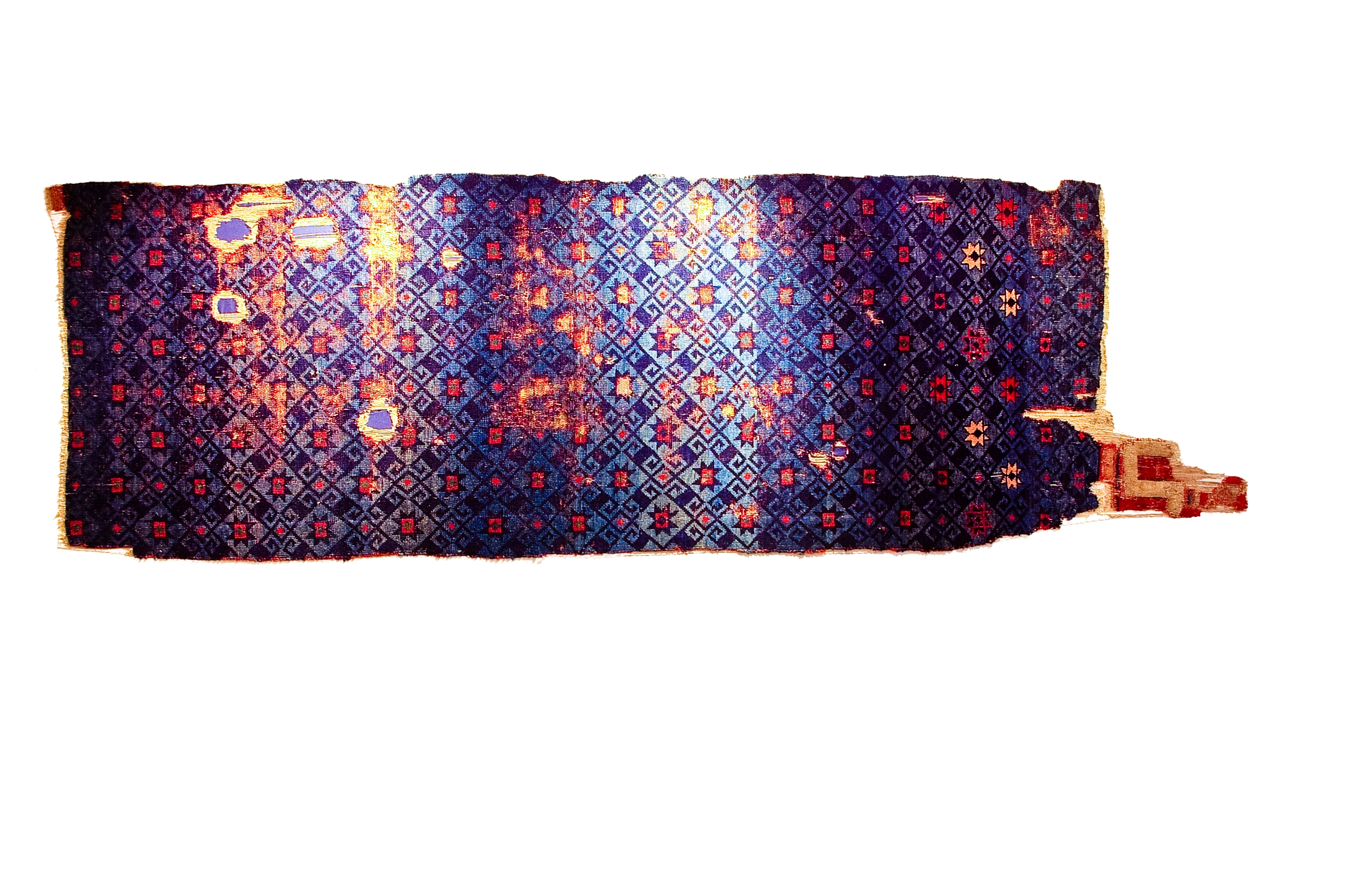 Carpet fragment from Esrefoglu mosque, Beysehir. Seljuk Period. 13th century.